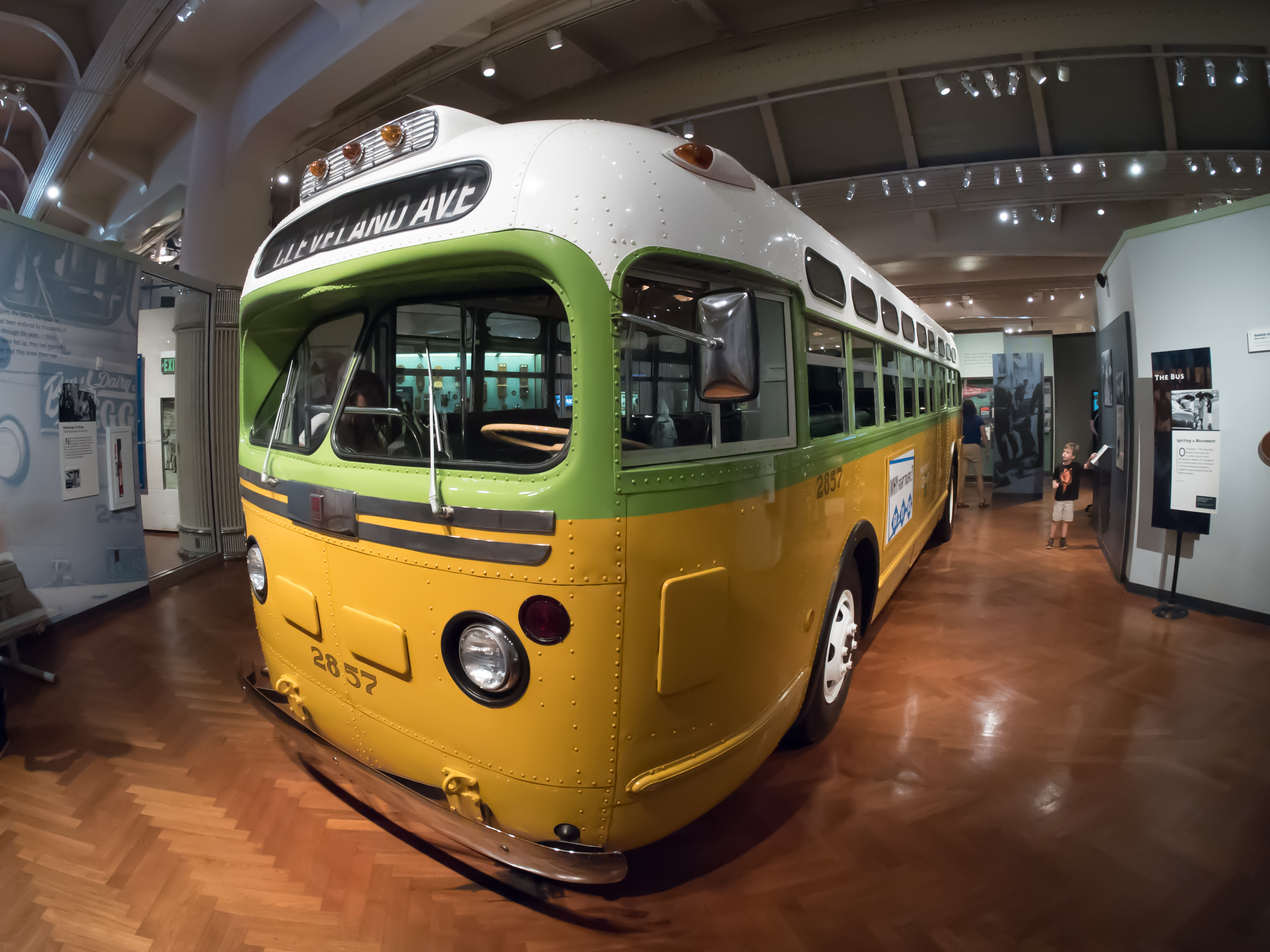 The bus Rosa Parks was riding at around 6 p.m., Thursday, December 1, 1955, in downtown Montgomery.